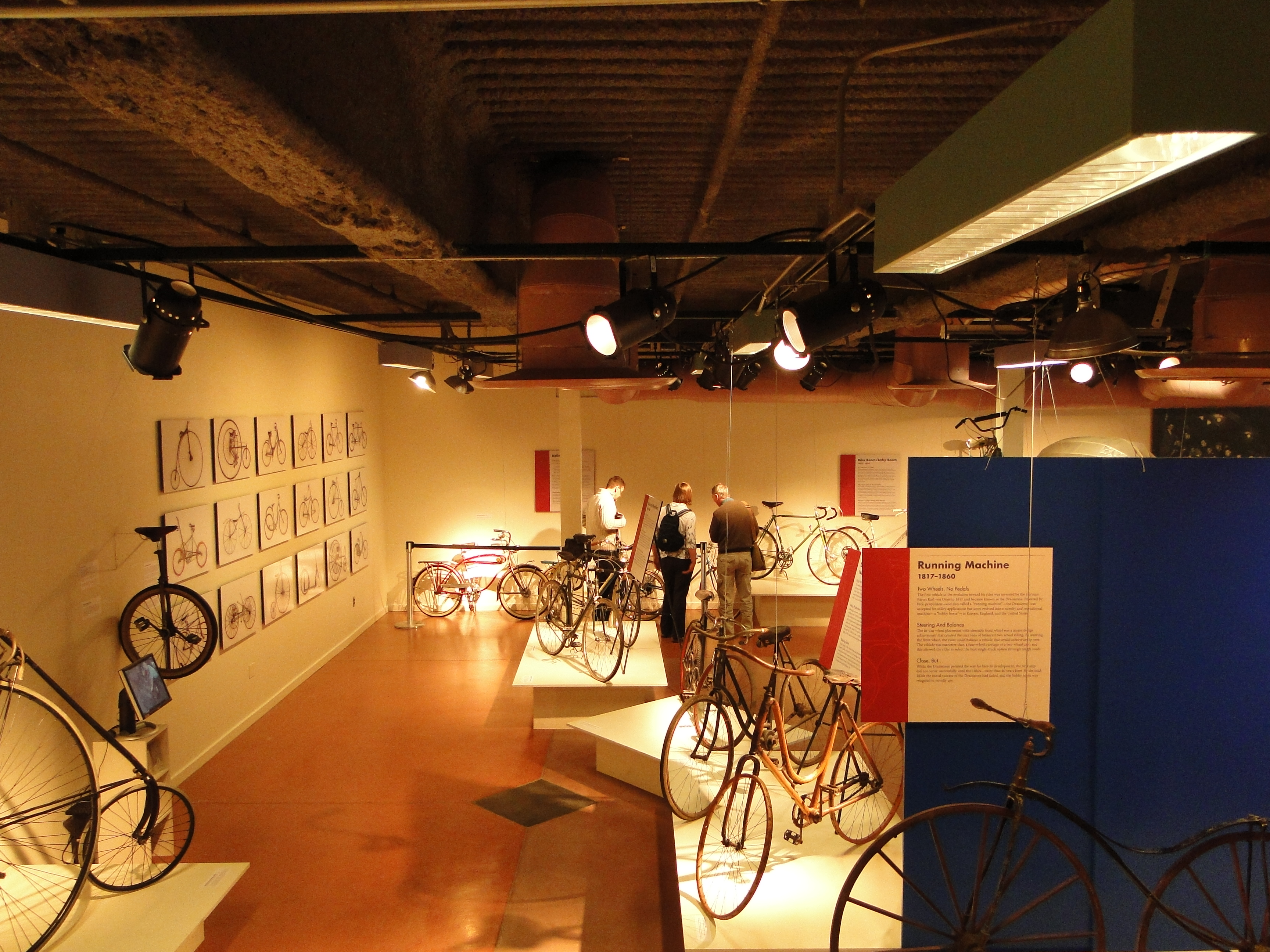 Overview of a portion of the display of historic bicycles at the U.S. Cycling Hall of Fame in Davis, California.